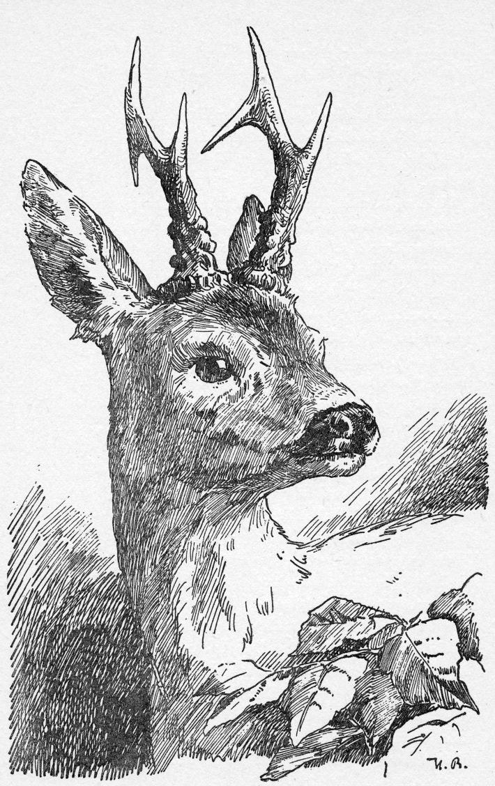 Illustration showing the character of Bambi from Felix Salten’s Bambi novels.